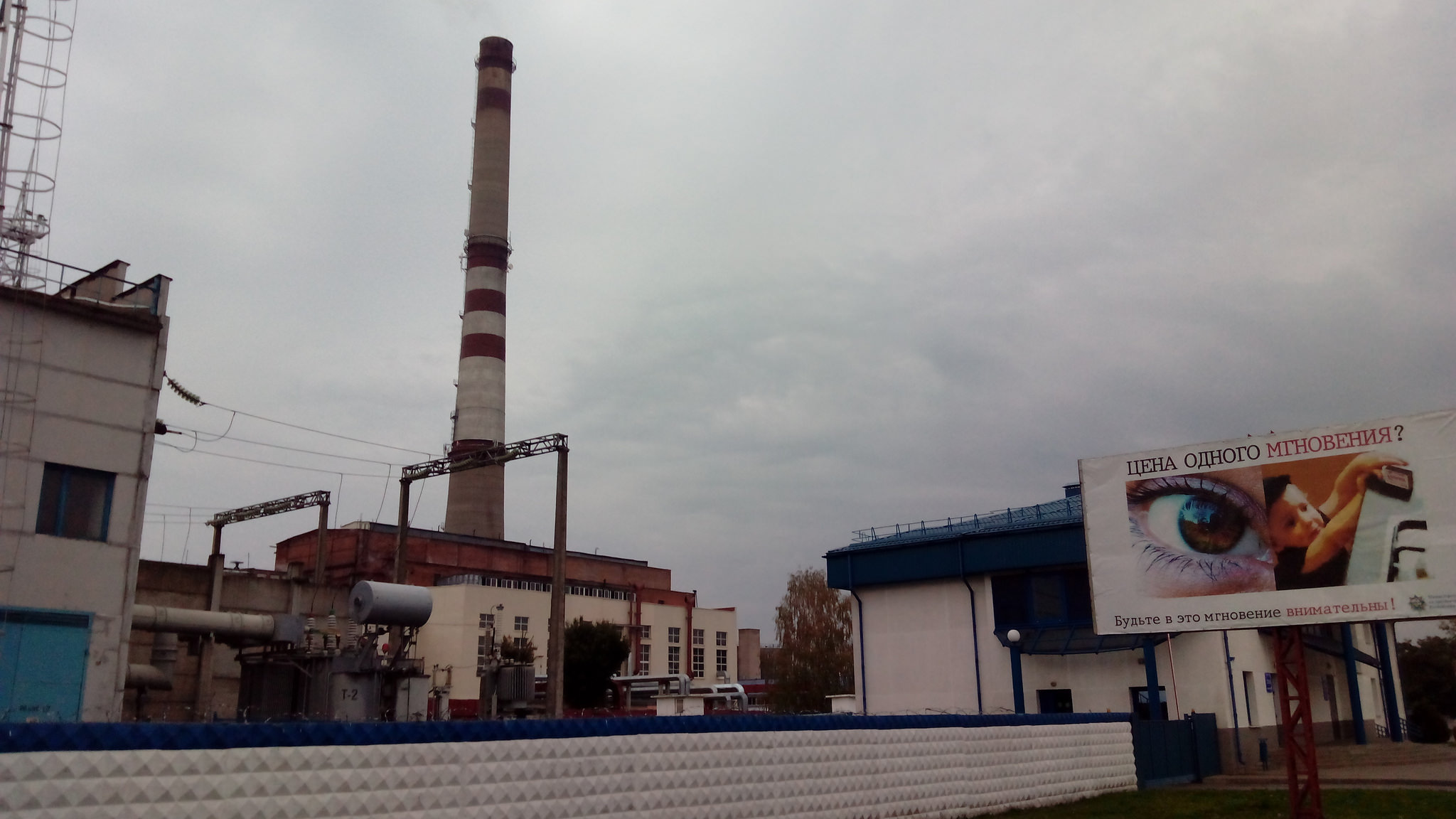 Электрастанцыя ў Баранавічах